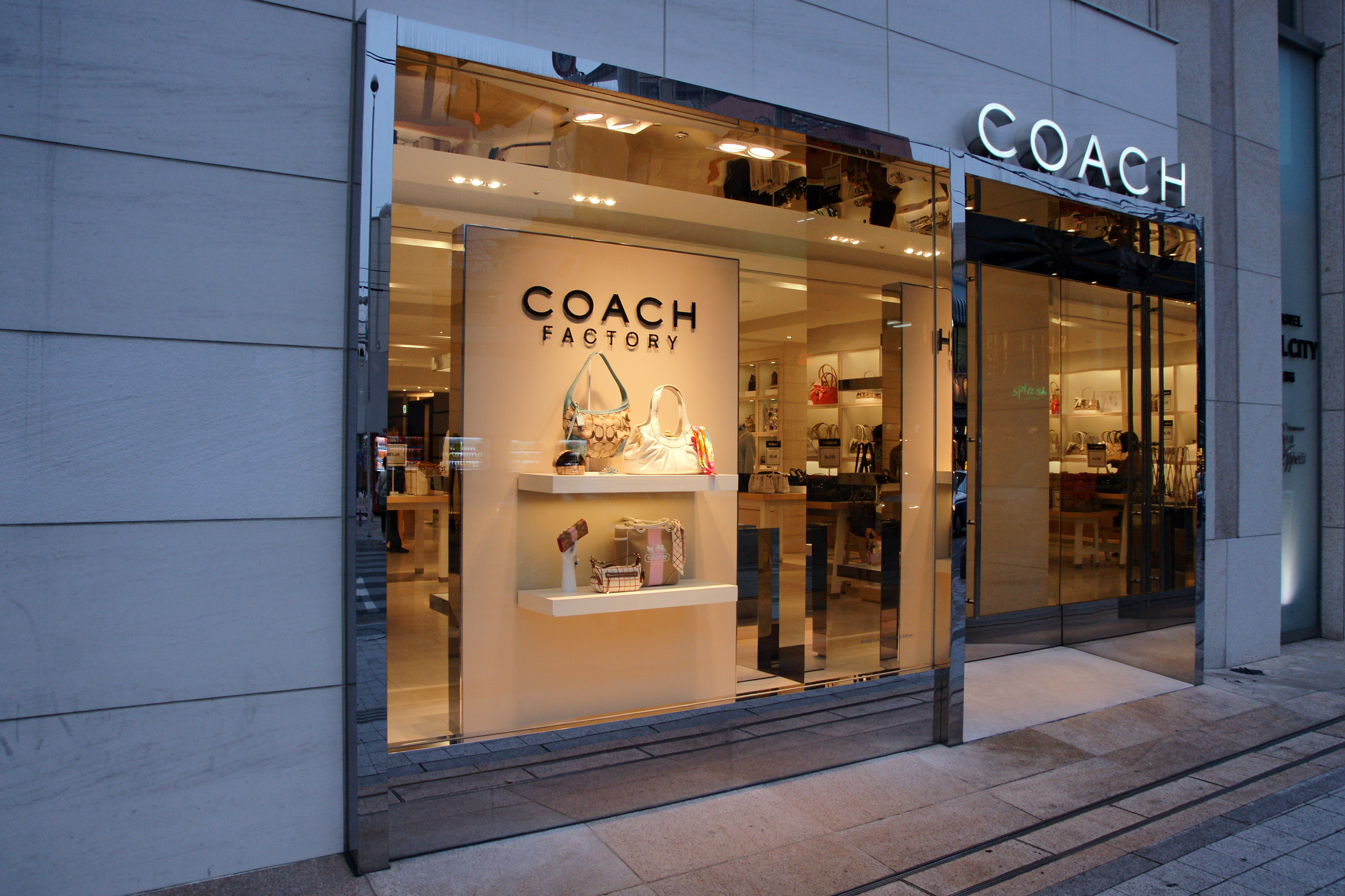 Kokusai-dori, Naha, Okinawa prefecture, Japan